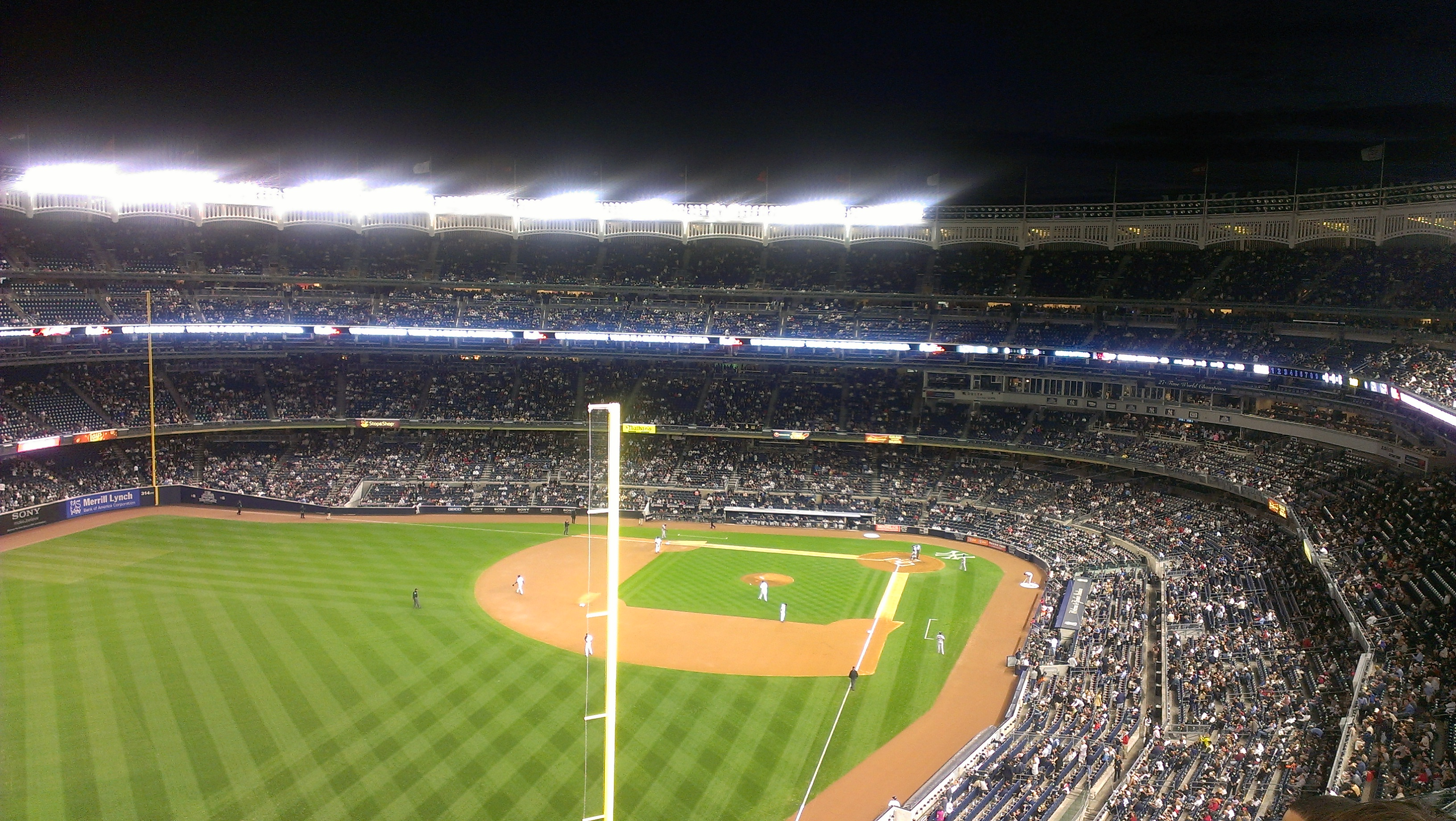 2012 shot of outfield